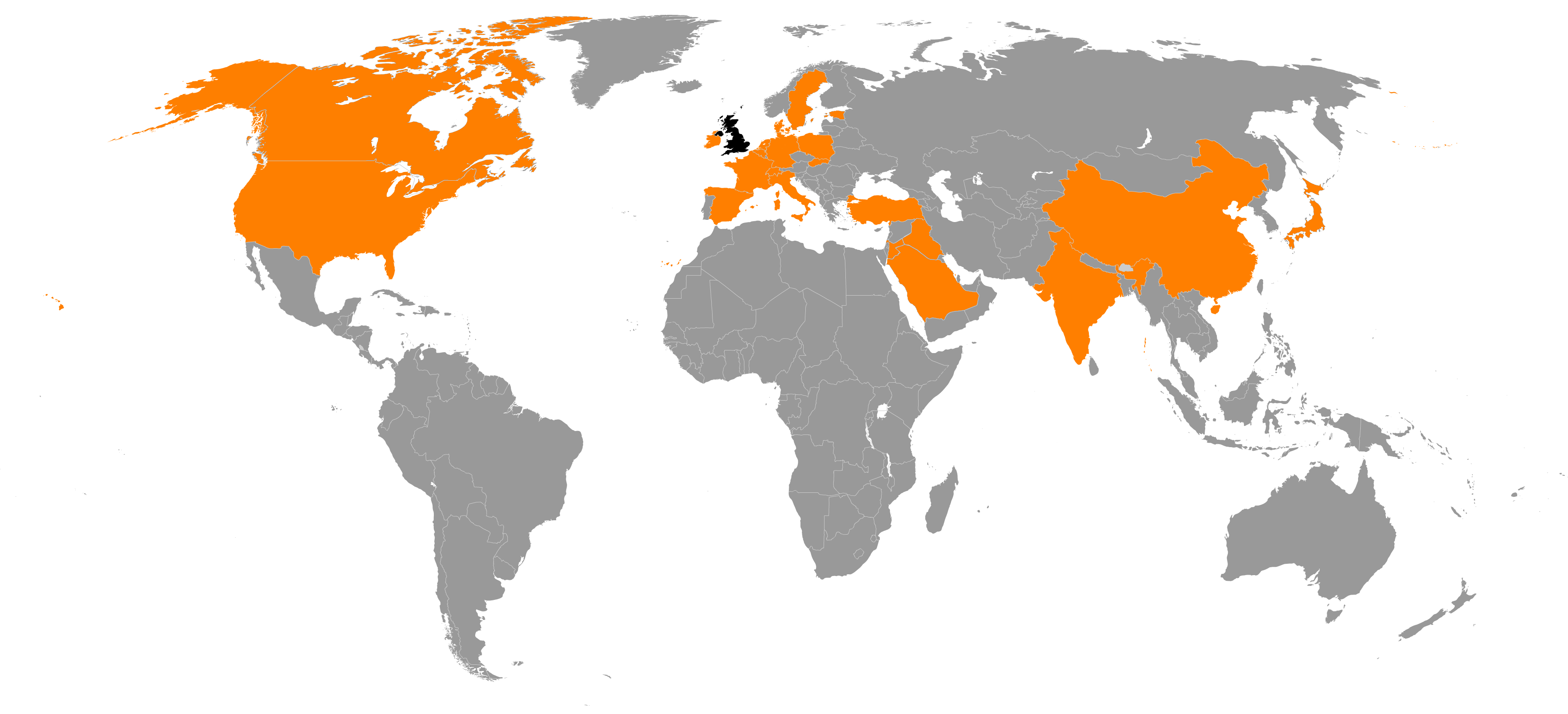 This map was created with GunnMapGunnMap was created by Arthur Gunn and is available, free, at and attribute by linking to Foreign trips of British Prime Minister Theresa May United Kingdom Countries visited by May